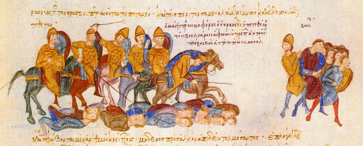 Skyllitzes Matritensis, fol. 185r, detail. Miniature: The Battle of Spercheios (in 997): The Byzantines under Nikephoros Ouranos slay the Bulgarians. References: Ioannis Scylitzae Synopsis Historiarum. Editio Princeps. Rec. Ioannes Thurn, p. 341-342, in: Corpus Fontium Historiae Byzantinae 5 Series Berolinensis, 1973 Tsamakda V.: The illustrated chronicle of Ioannes Skylitzes in Madrid, p. 221